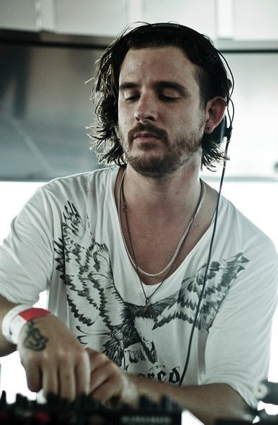 Luciano mixing